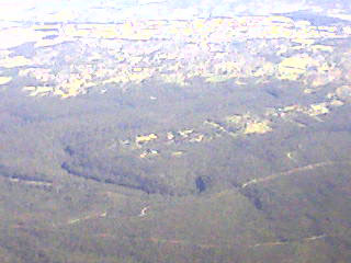 Aerial photograph (taken with a dodgy mobile phone) of the suburb of Long Point, NSW. The bushland at the bottom is the Holsworthy army base. The Georges River can be seen skirting around Long Point. In the background is the suburb of Ingleburn.